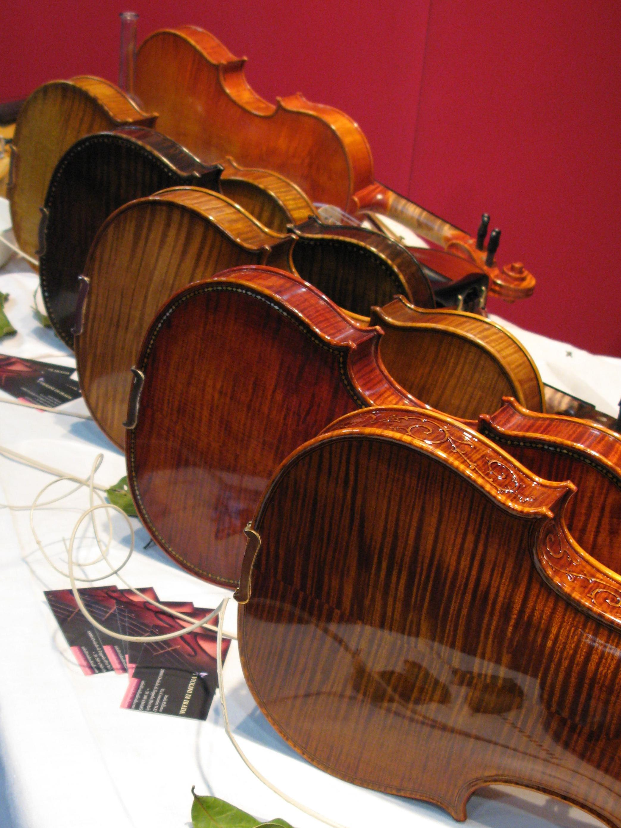 Back of violins.